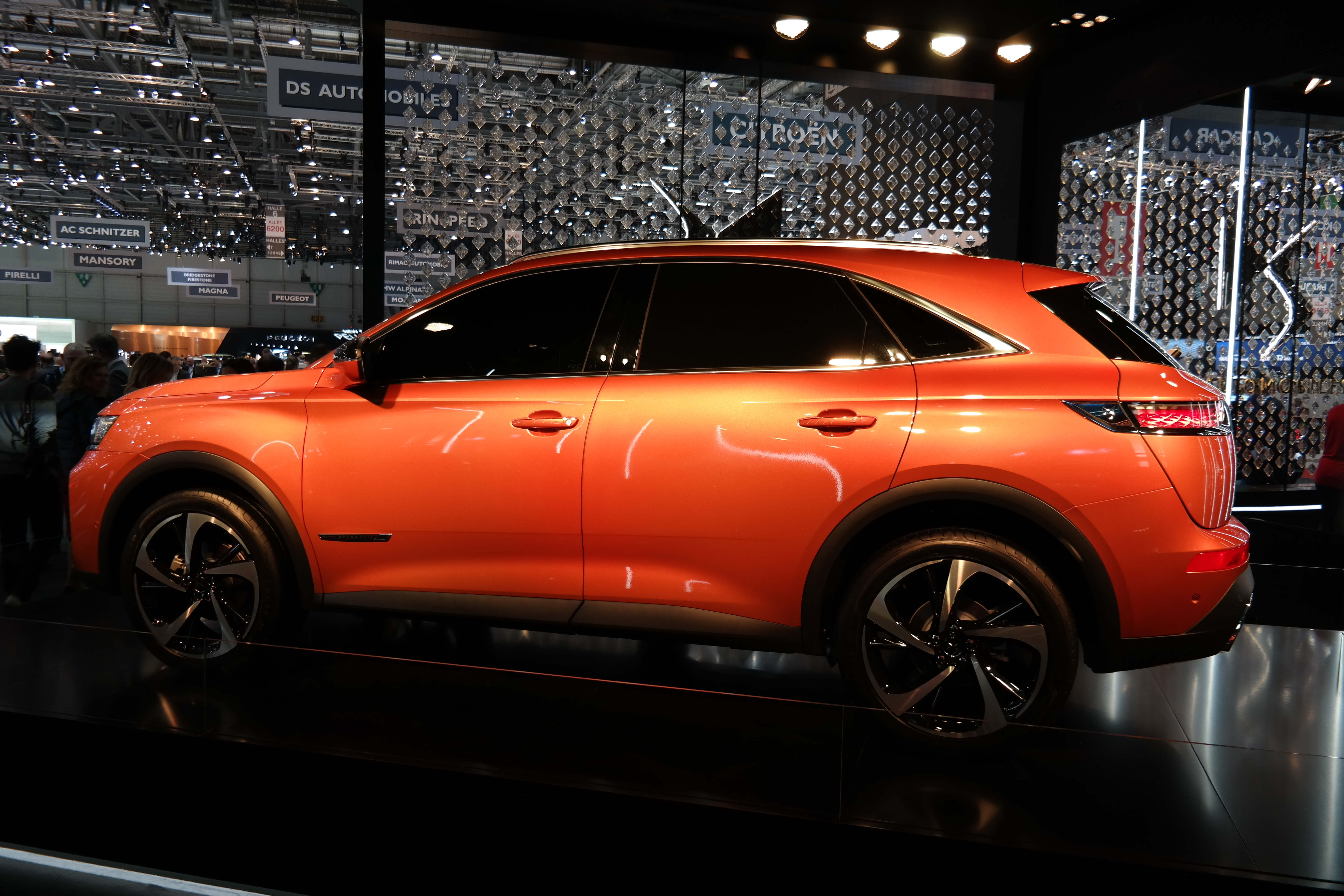 Geneva Motor Show 2017 (photo taken on the first press day)